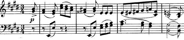 Classical music. Public domain. Old edition.